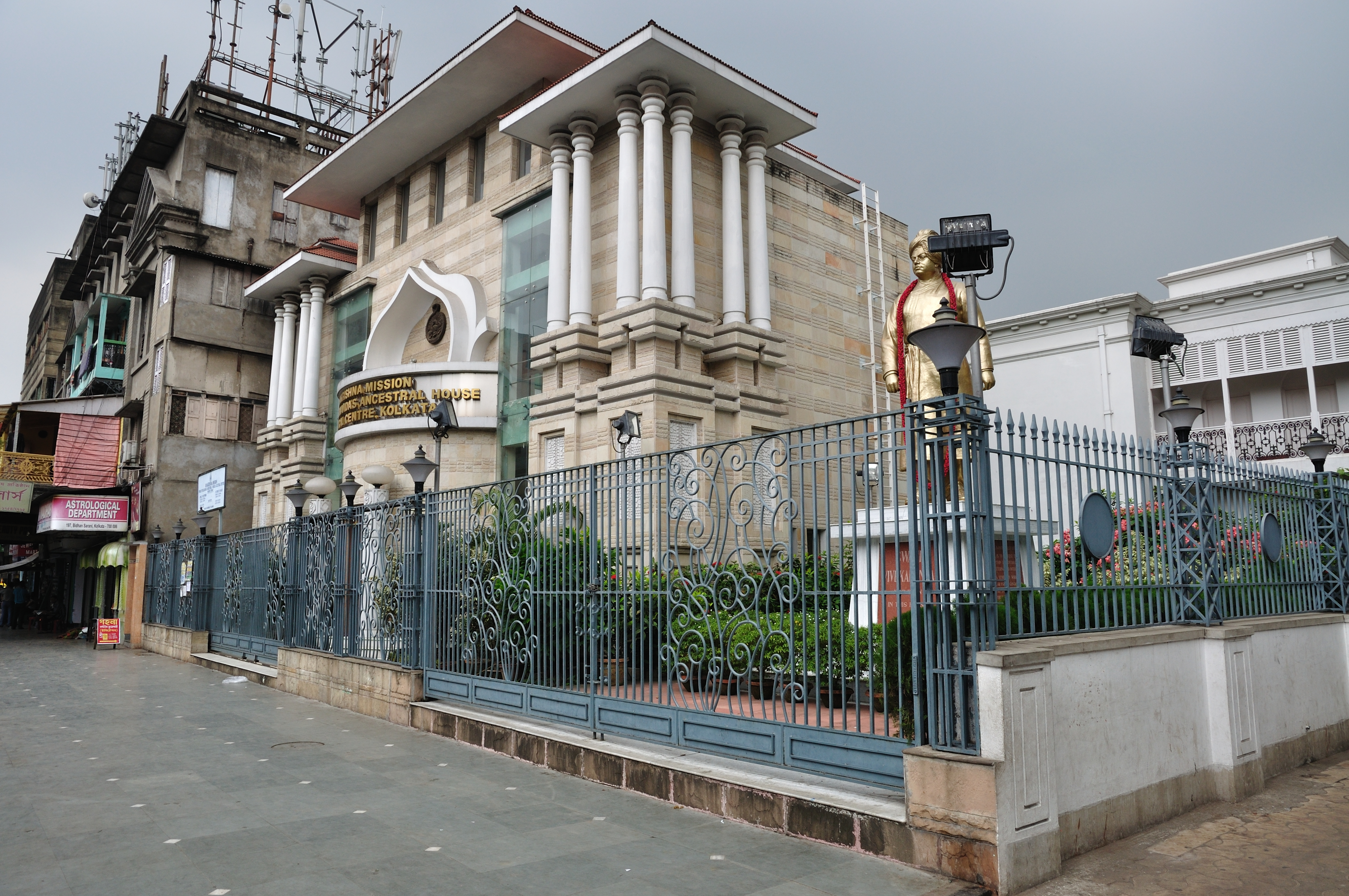 Swami Vivekananda's Ancestral House & Cultural Centre, 3 Gour Mohan Mukherjee street, in North Kolkata, is a museum and cultural centre that newly constructed and maintained by the Ramakrishna Mission, where Narendranath Dutta (Swami Vivekananda) born and spend his childhood and pre-monastic life.